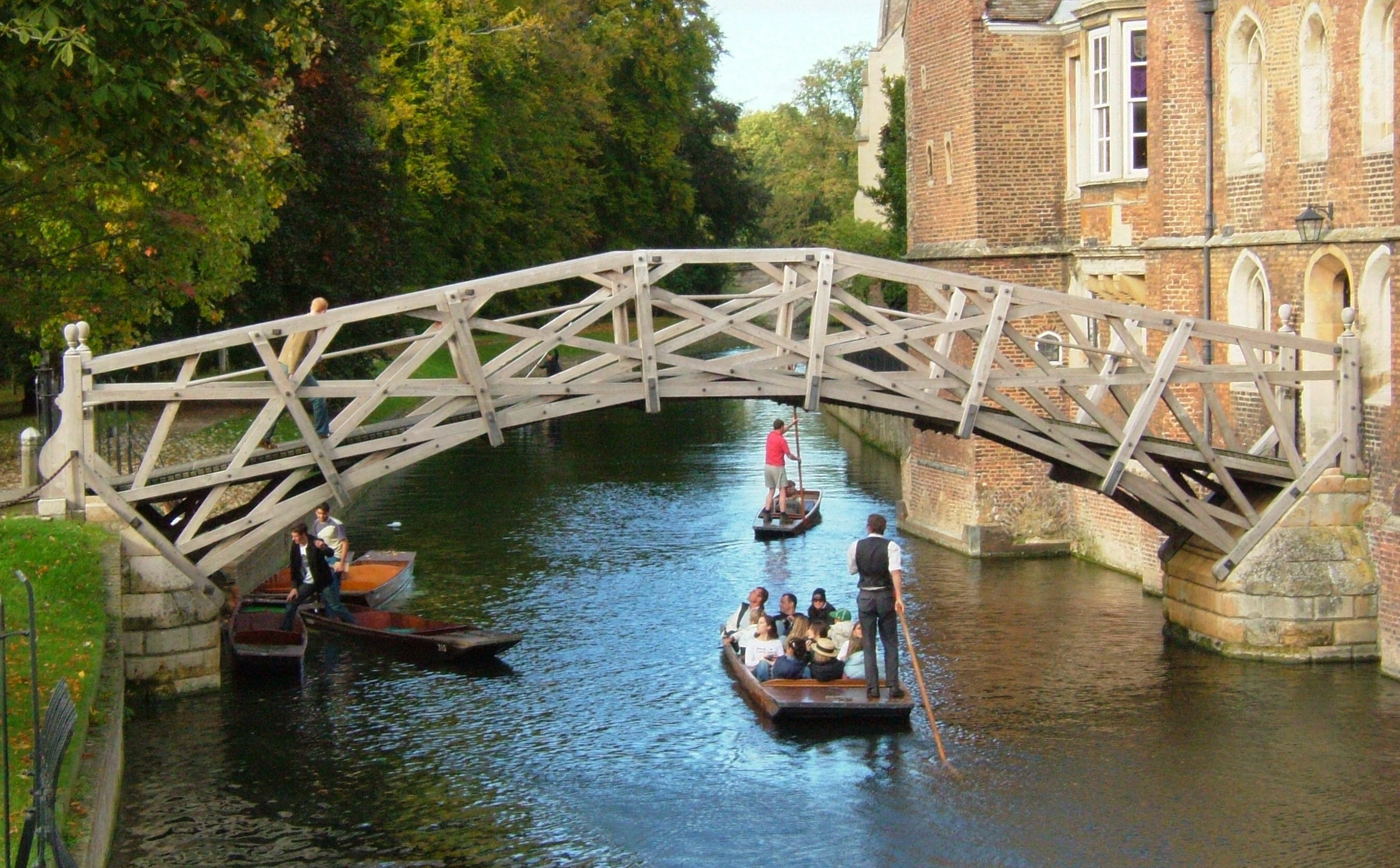 Mathematical Bridge in Cambridge, United-Kingdom